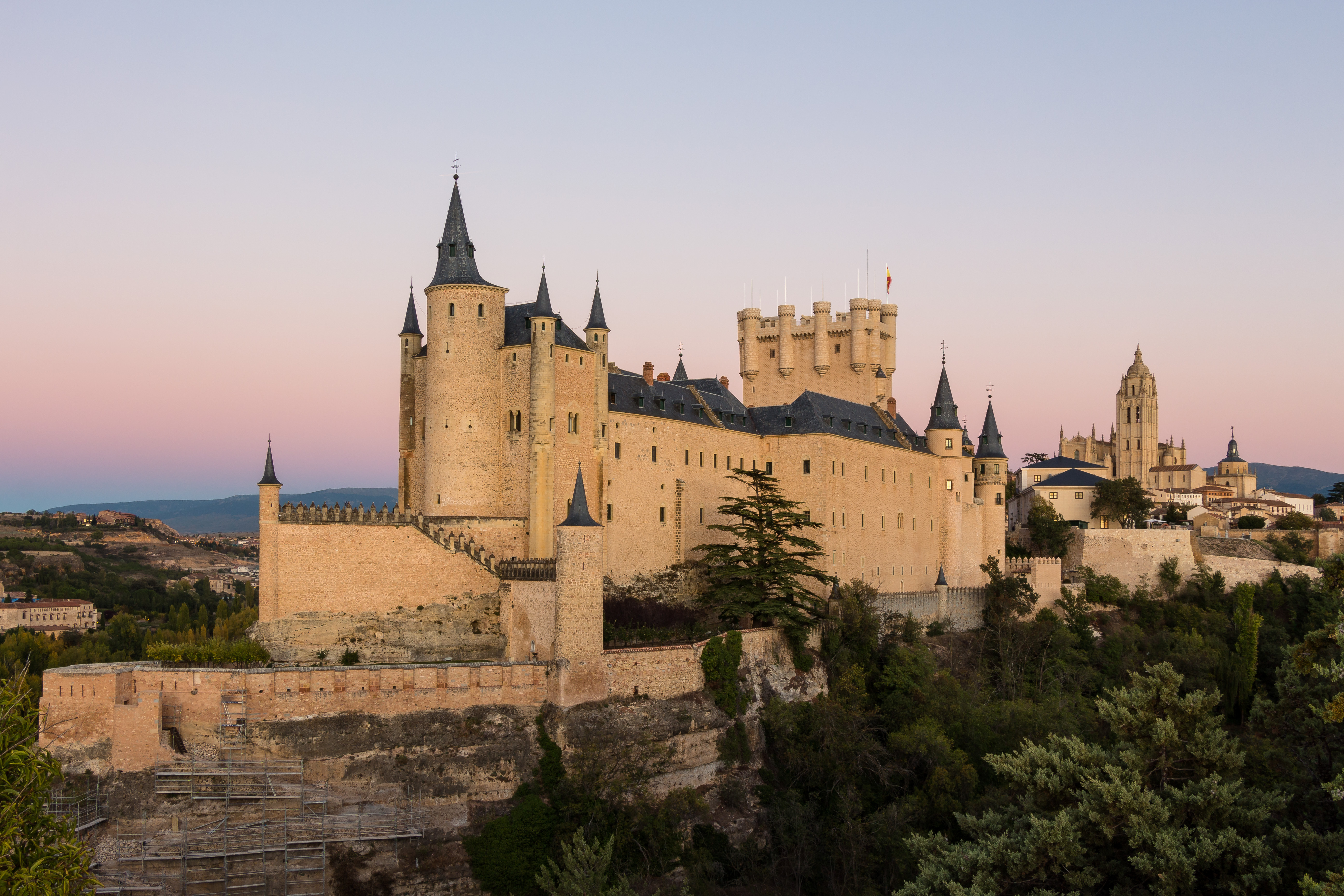 Vista del Alcázar de Segovia al atardecer Alcázar of Segovia (Inventory)Native nameAlcázar de SegoviaParent institutionOld Town of Segovia and its Aqueduct LocationSegovia , (Spain)Coordinates40° 57′ 09″ N, 4° 07′ 58″ W Established1122Web pagealcazardesegovia.comAuthority control : Q557337 VIAF: 237436374 ULAN: 500308864 BIC: RI-51-0000861 GND: 4443101-6 BNE: XX83953 institution QS:P195,Q557337